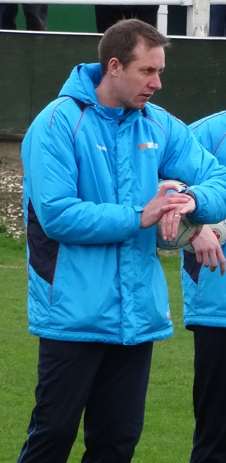 Darryn Stamp at North Ferriby United's match against Solihull Moors at Grange Lane, North Ferriby on 18 March 2017